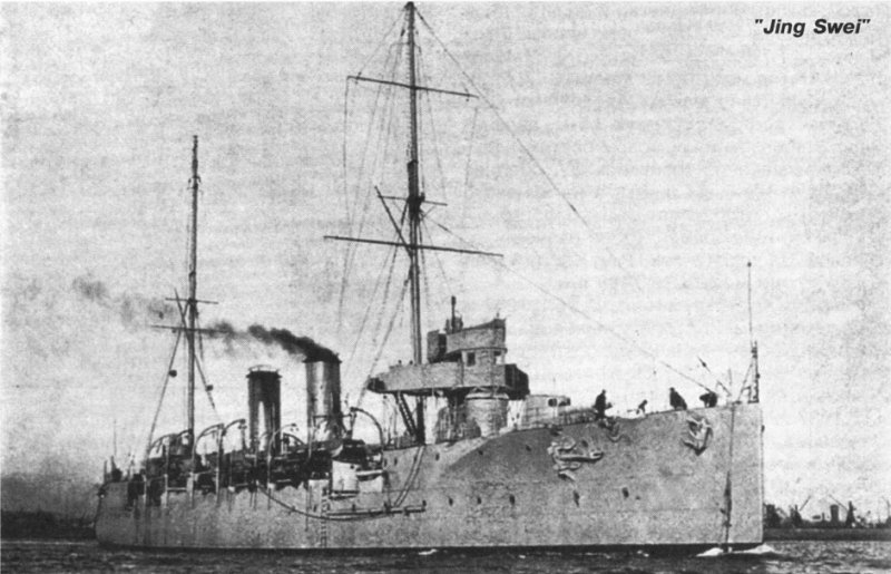 Chinese cruiser Ying Swei Other information Copyright on photos in the PRC expire 50 years after publication. The Chao Ho was sunk in 1937.